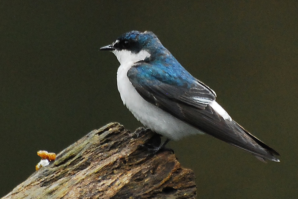 Mangrove Swallow along the Sarapiqui River south of Puerto Viejo, Costa Rica